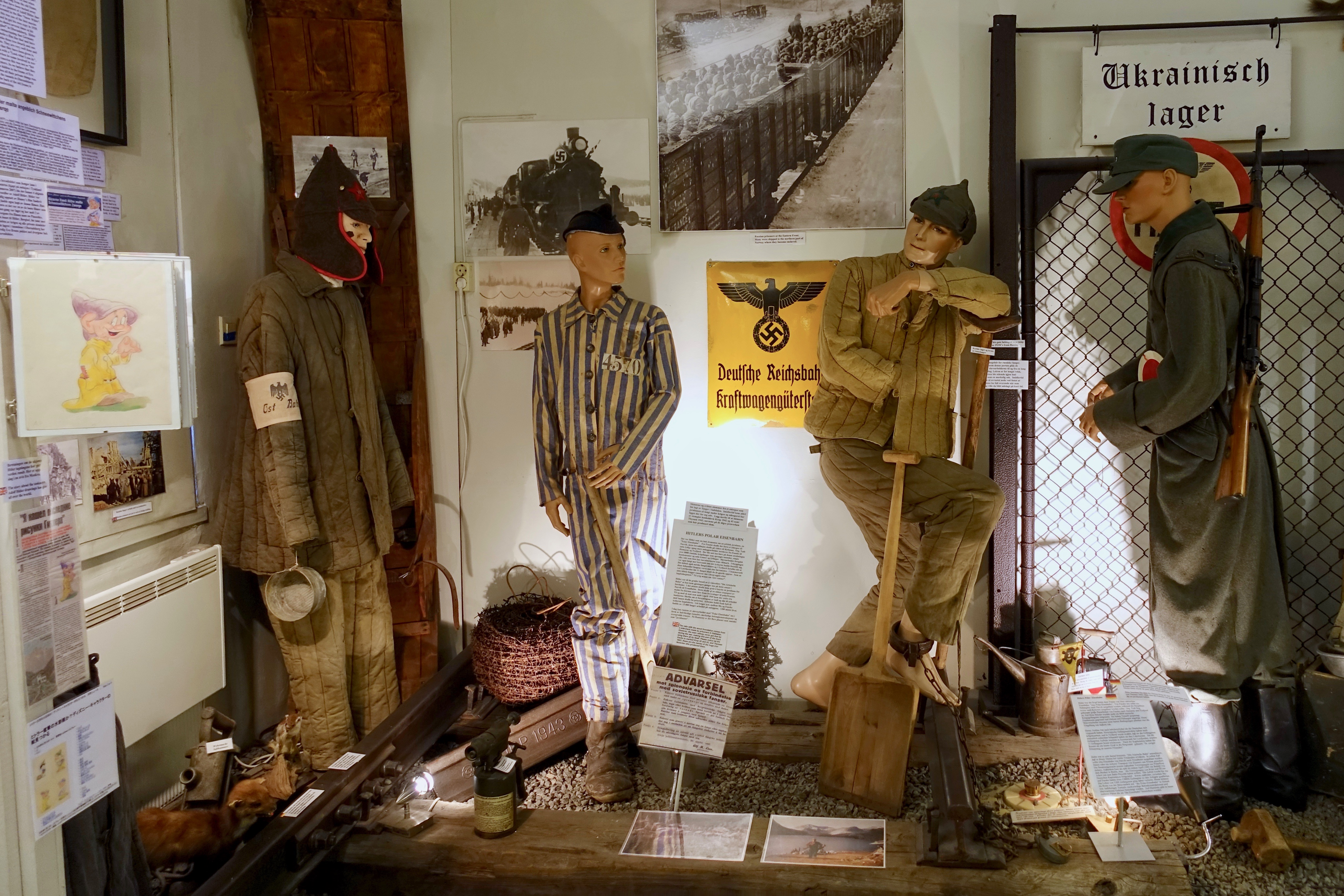 Items from WW2 showing Nazi Germany's use of forced slave labour when constructing the Polar Eisenbahn (Polarkreiseisenbahn) and Ost Bahn for the Deutsche Reichsbahn. Soviet POW prisoners in quilted clothing (telogreika uniform, fufaika winter jacket and trousers) and striped prisoner's uniform, with Red Army Budenovka cap, etc. Also yellow Deutsche Reichsbahn Kraftwagengüterstelle sign, barbed wire, foot chains, railroad ties, wooden shovels, camp gate with Ukrainisch Lager ("Ukranian Camp") and Halt' ("Stop") signs, German military guard with Mauser rifle, etc. In front to the left, is photo copies of Hitler's assumed watercolour drawings of four dwarf characters from Disney's anited film Snowwhite.Photo taken on May 8th, 2019 at Lofoten War Memorial Museum ("Lofoten Krigsminnemuseum") in Svolvær, Norway. The museum exhibits uniforms, smaller items, etc. from World War II and the German occupation of Norway 1940–1945.